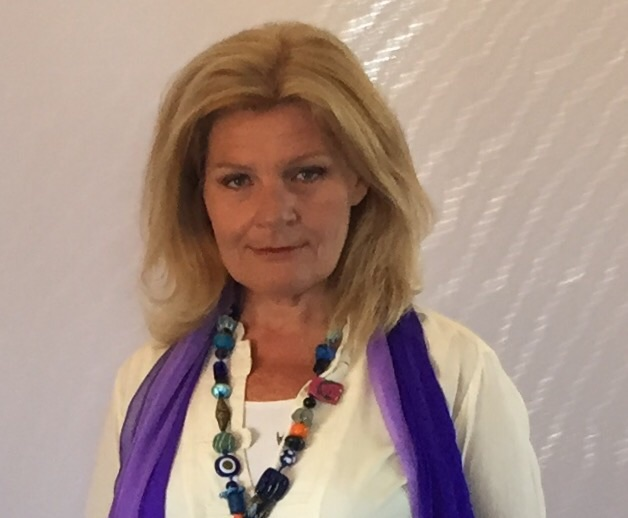 Swedish journalist Cecilia Uddén